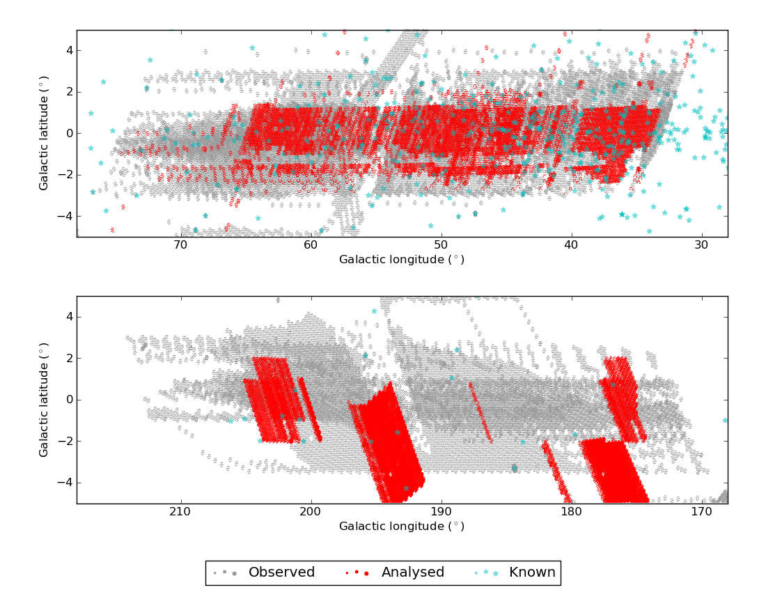 Sky coverage map of the PALFA survey as of February 19, 2013